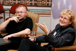 Czech-American novelist Jan Novák and lawyer Vladimira Papirnik at an event celebrating the 20th anniversary of the Velvet Revolution at the US Embassy in Prague, Czech Republic.